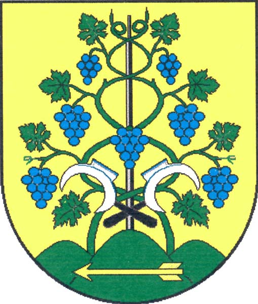 Municipal coat of arms of Lovčičky village, Vyškov District, Czech Republic.